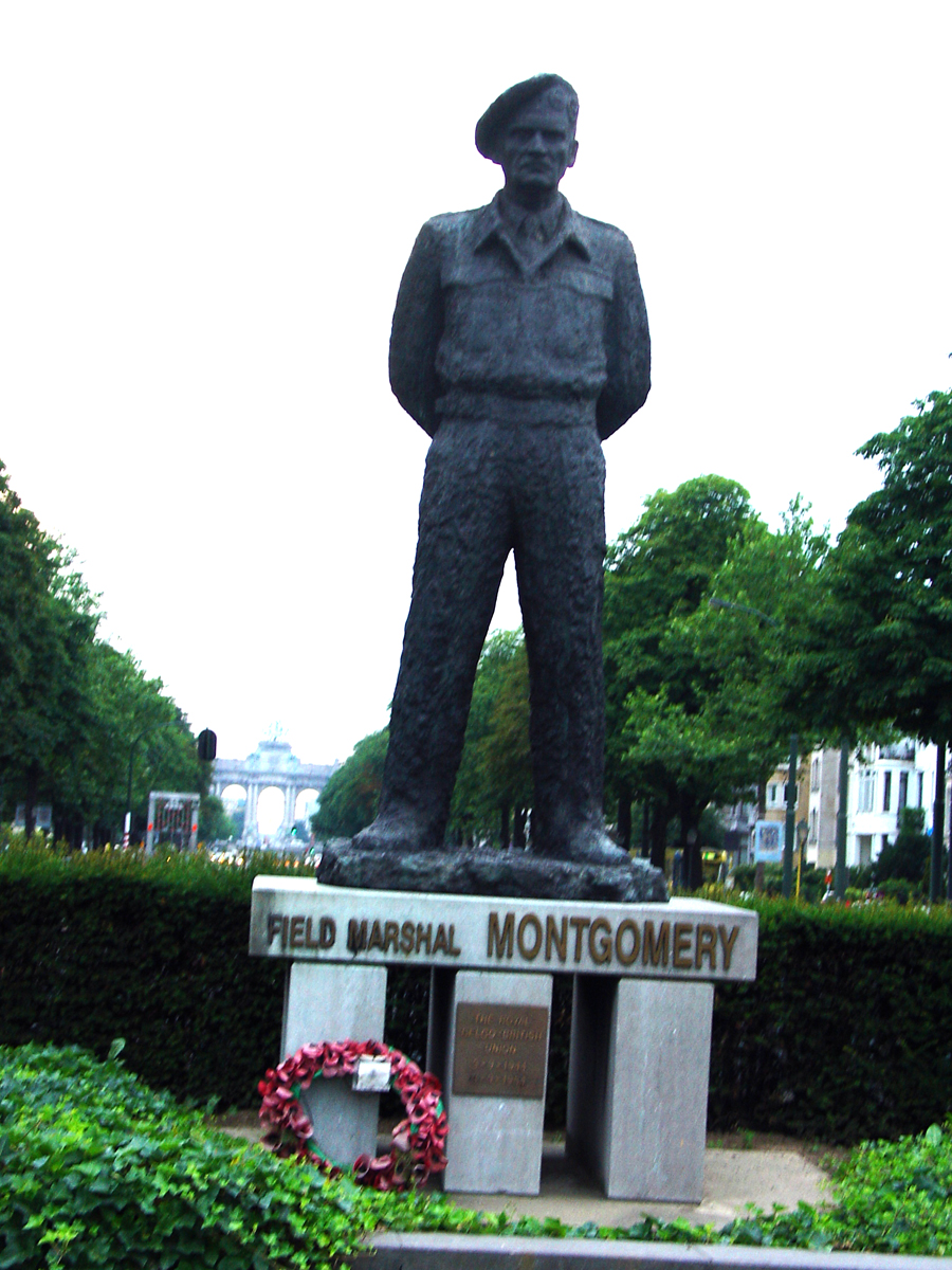 Statue of field marshal Montgomery in Brussels by Oscar Nemon (1906-1985)